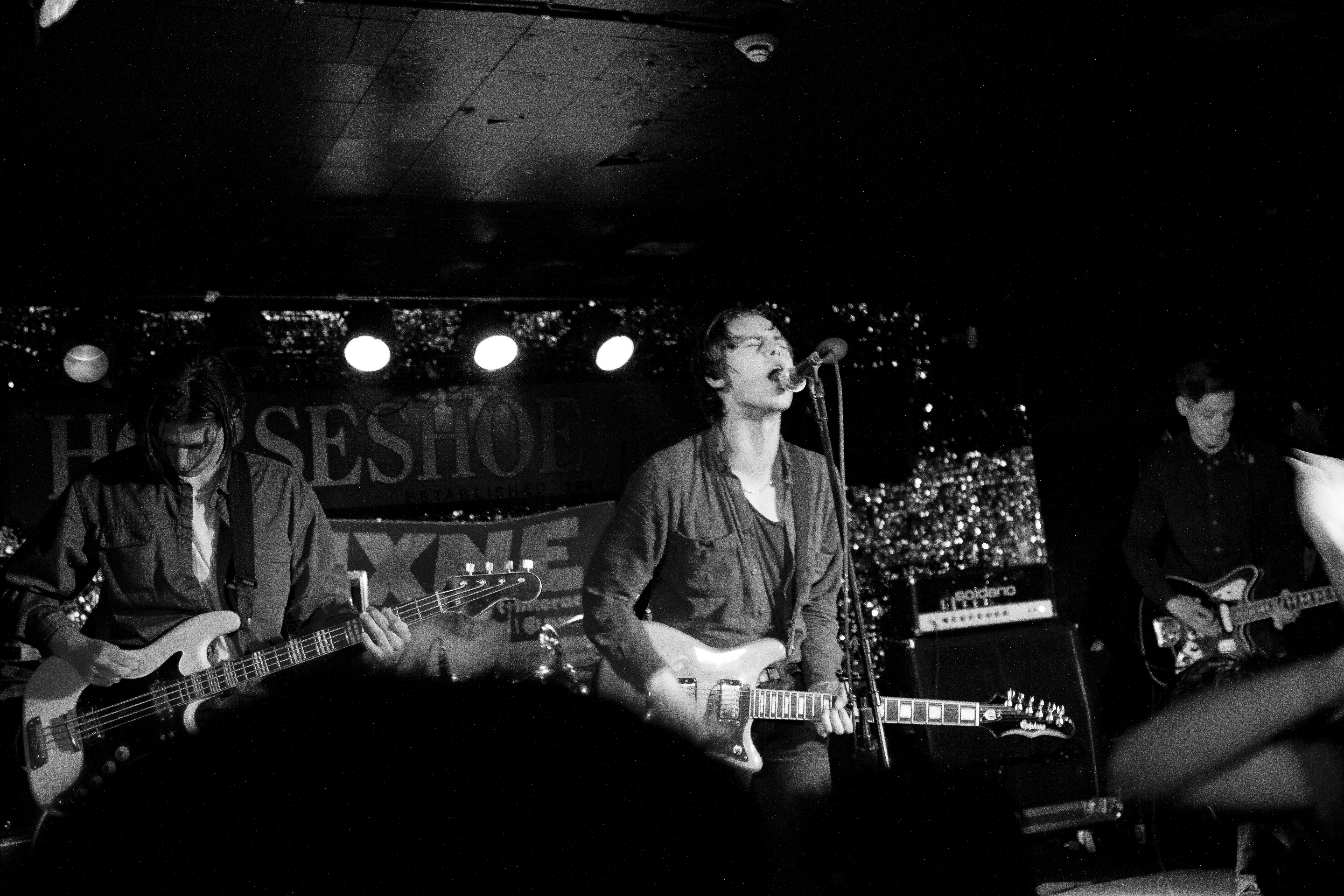 At The Horseshoe Tavern in Toronto on June 15, 2013.